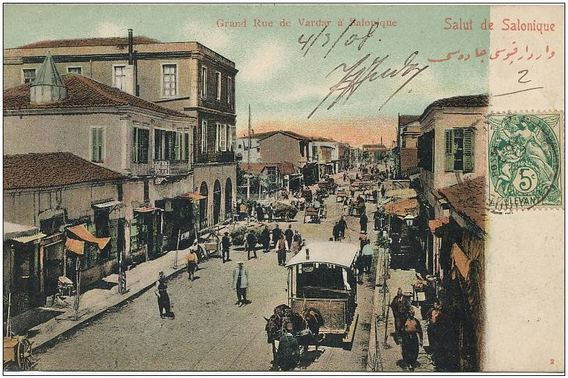 Vardar Street in Salonica, Ottoman Postcard